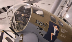 One of the last functional B-17s on display at the AMC Museum in Dover, Delaware.